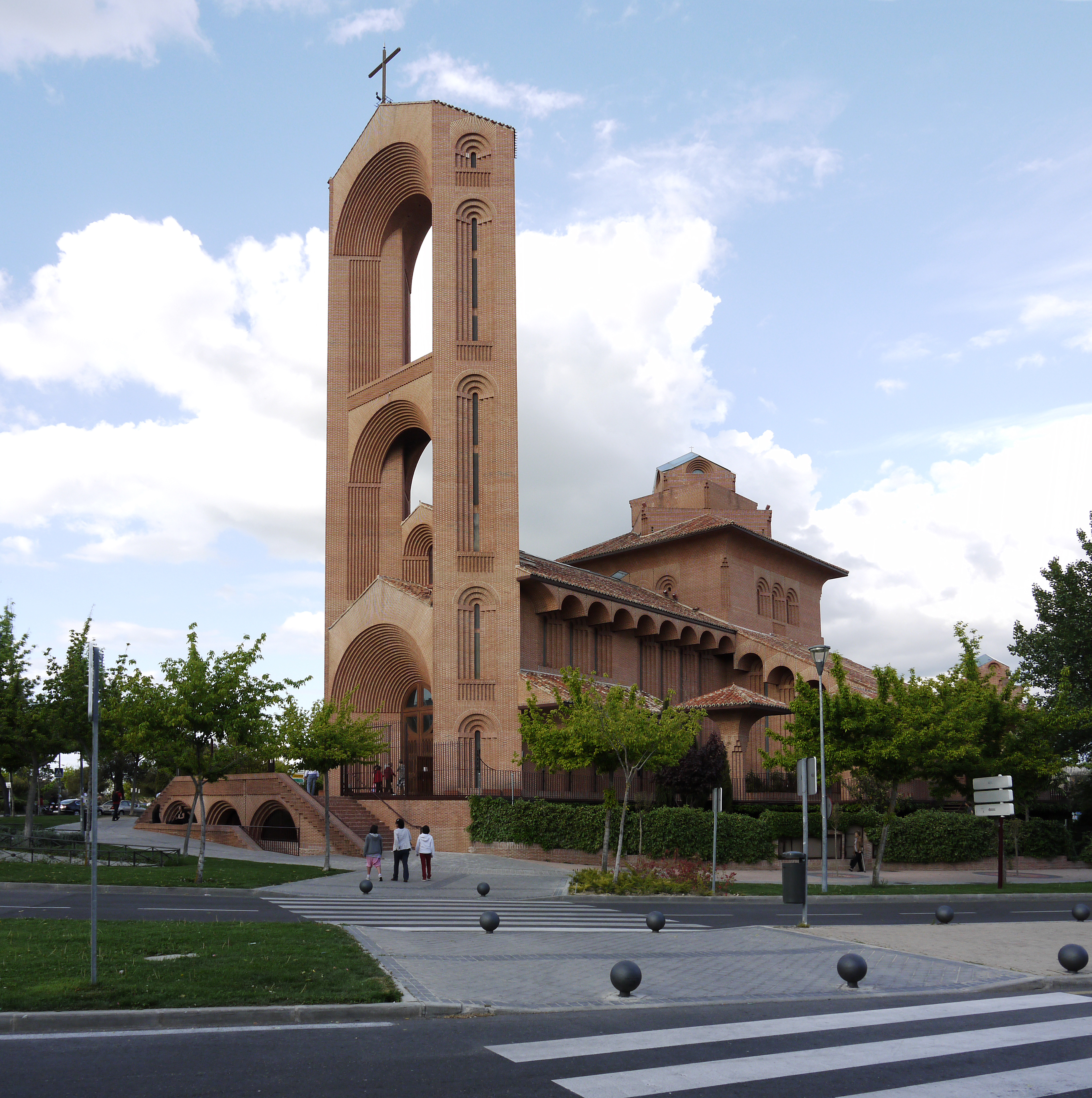 Church of St Mary of Caná, Pozuelo de Alarcón, Madrid, Spain.